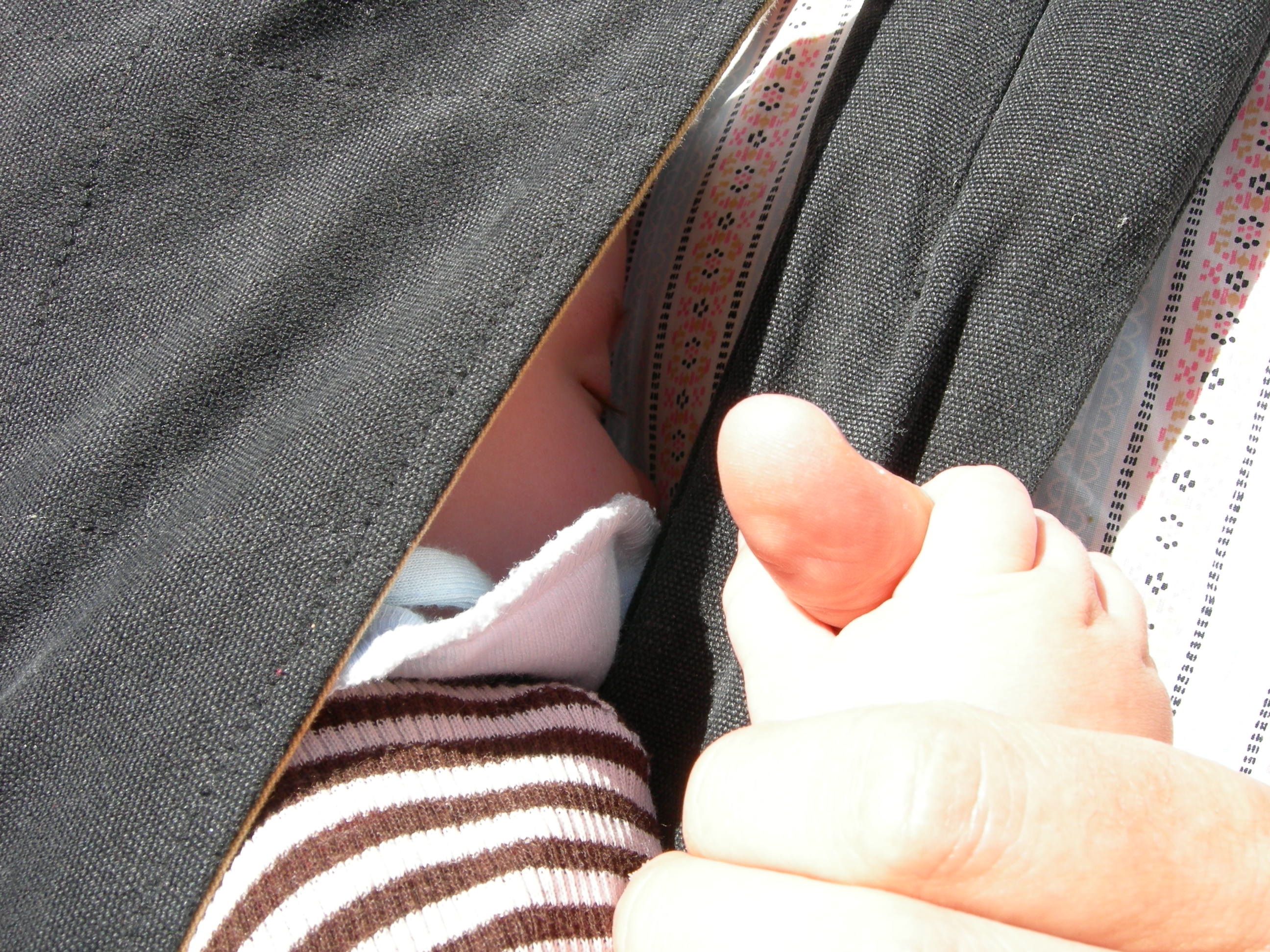 Sleeping baby holds thumb